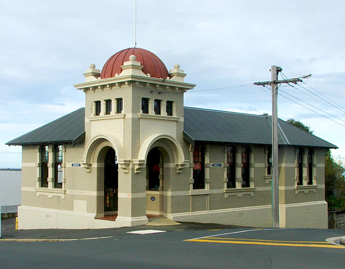 The former Mornington Post Office, Dunedin, New Zealand. Photographed by James Dignan (User:Grutness) on May 17, 2009.